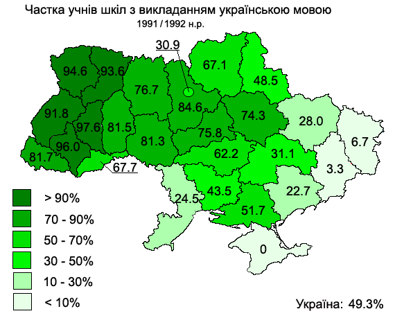 Share of students of schools with ukrainian language of instruction in 1991/1992.